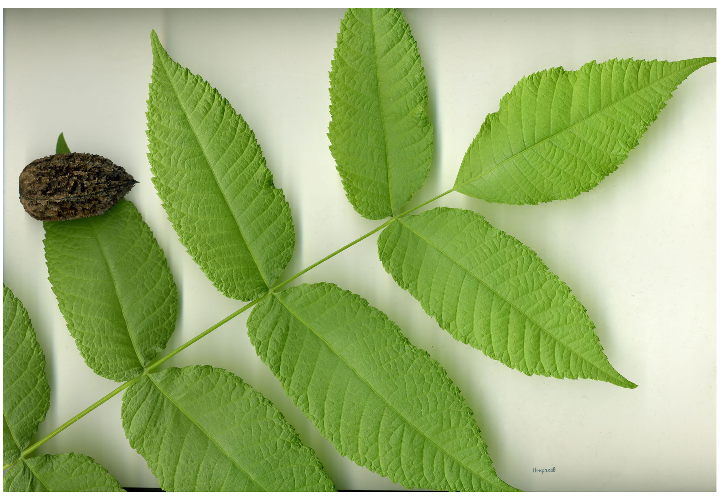 Juglans cinerea Moscow. Орех серый лист и орех. Москва.